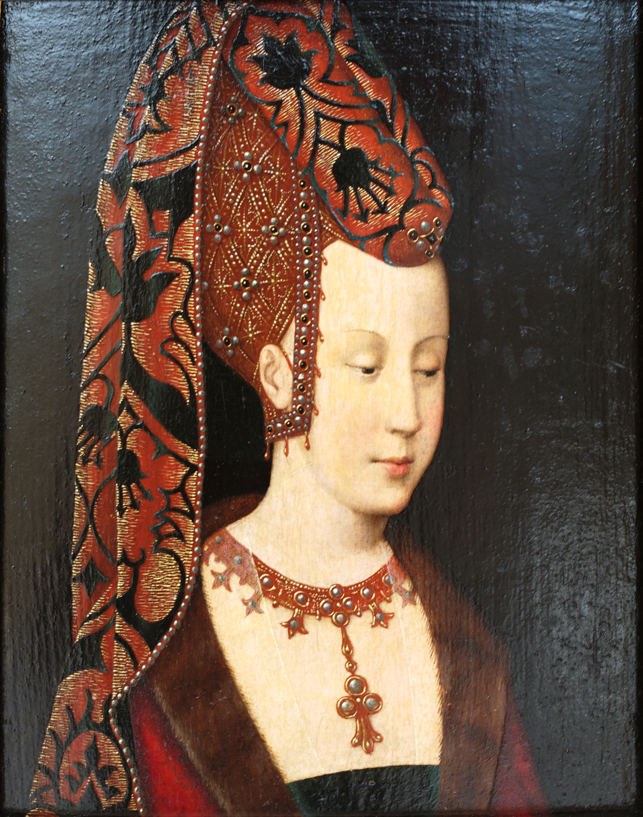 Portrait of Isabella of Portugal, third wife of Philip the Good of Burgundy and mother of Charles the Bold. This portrait is probably an old copy dating from around 1500 after a lost original (ca. 1430).